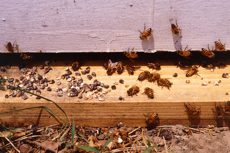 Chalkbrood (Symptoms) Ascosphaera apis (Maasen ex Claussen) L.S. Olive & Spiltoir The entrance to this beehive is littered with chalkbrood mummies that have been expelled from the hive by hygienic worker bees. Image location: United States